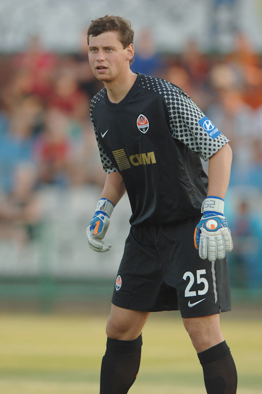 olekasandr rybka